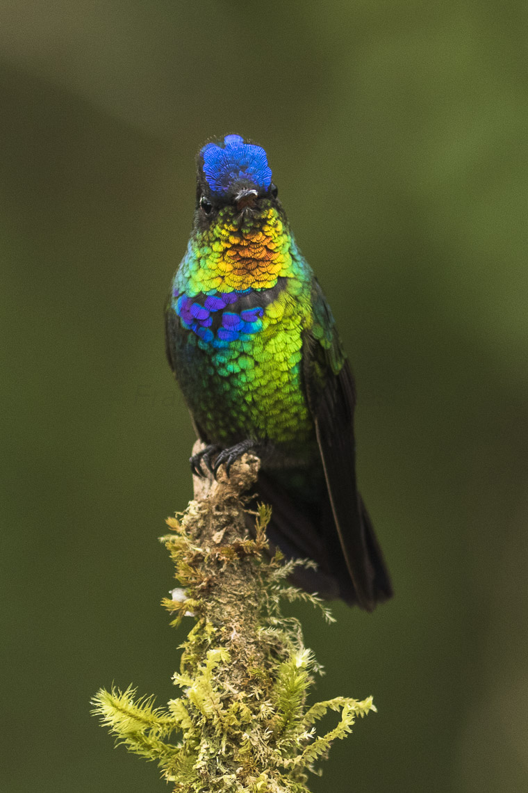 Fiery-throated Hummingbird - Cloud Forest - Costa Rica_MG_6195